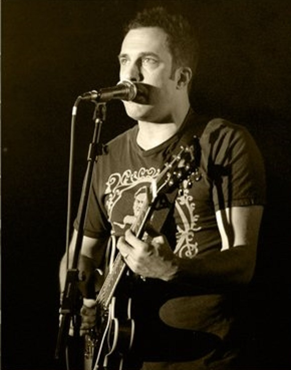 Singer/Songwriter JJ Appleton performing at the Soho Revue Bar in London, England, 2008